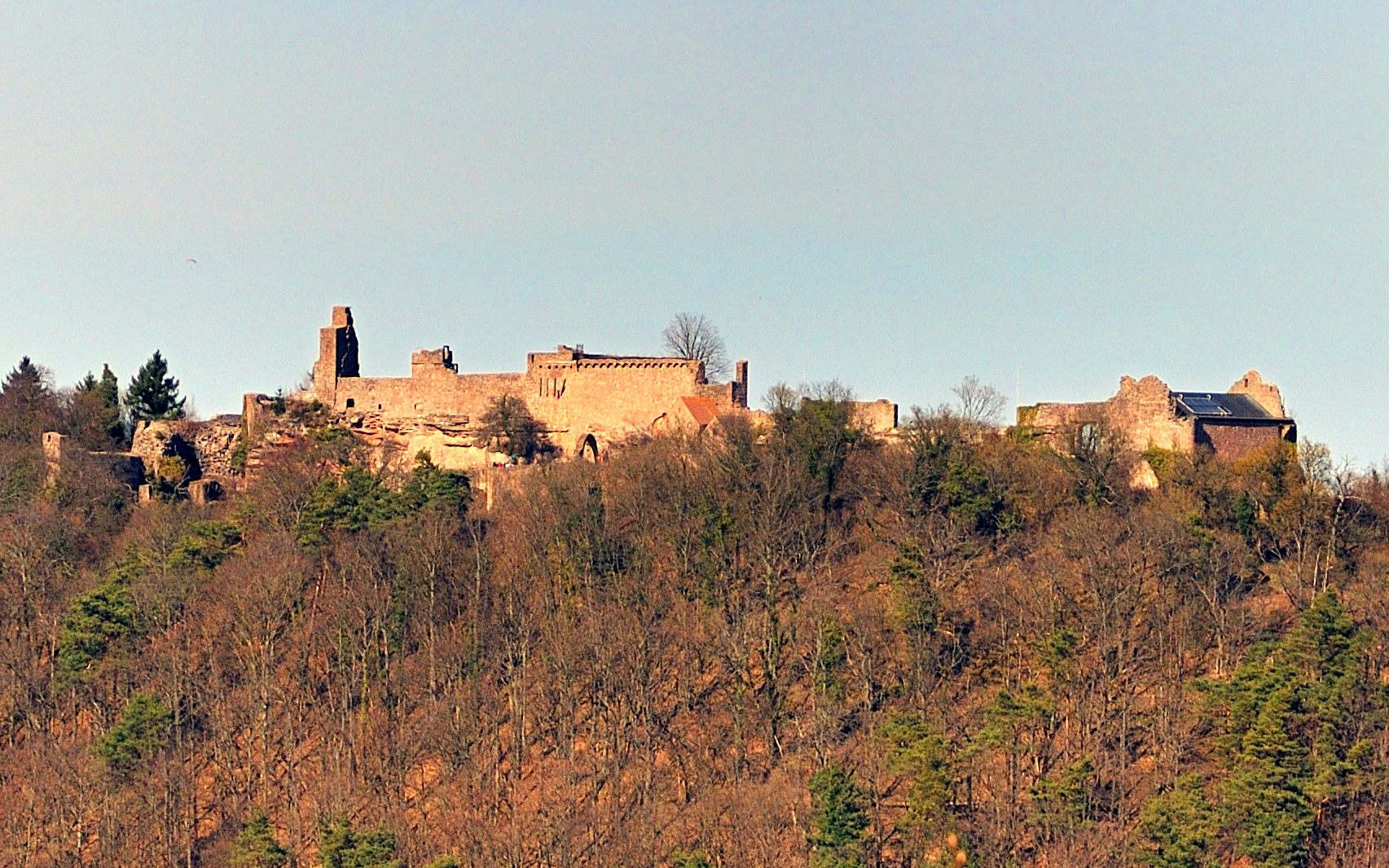 ruins of castle Madenburg near Eschbach, Germany, view from Heidenschuh